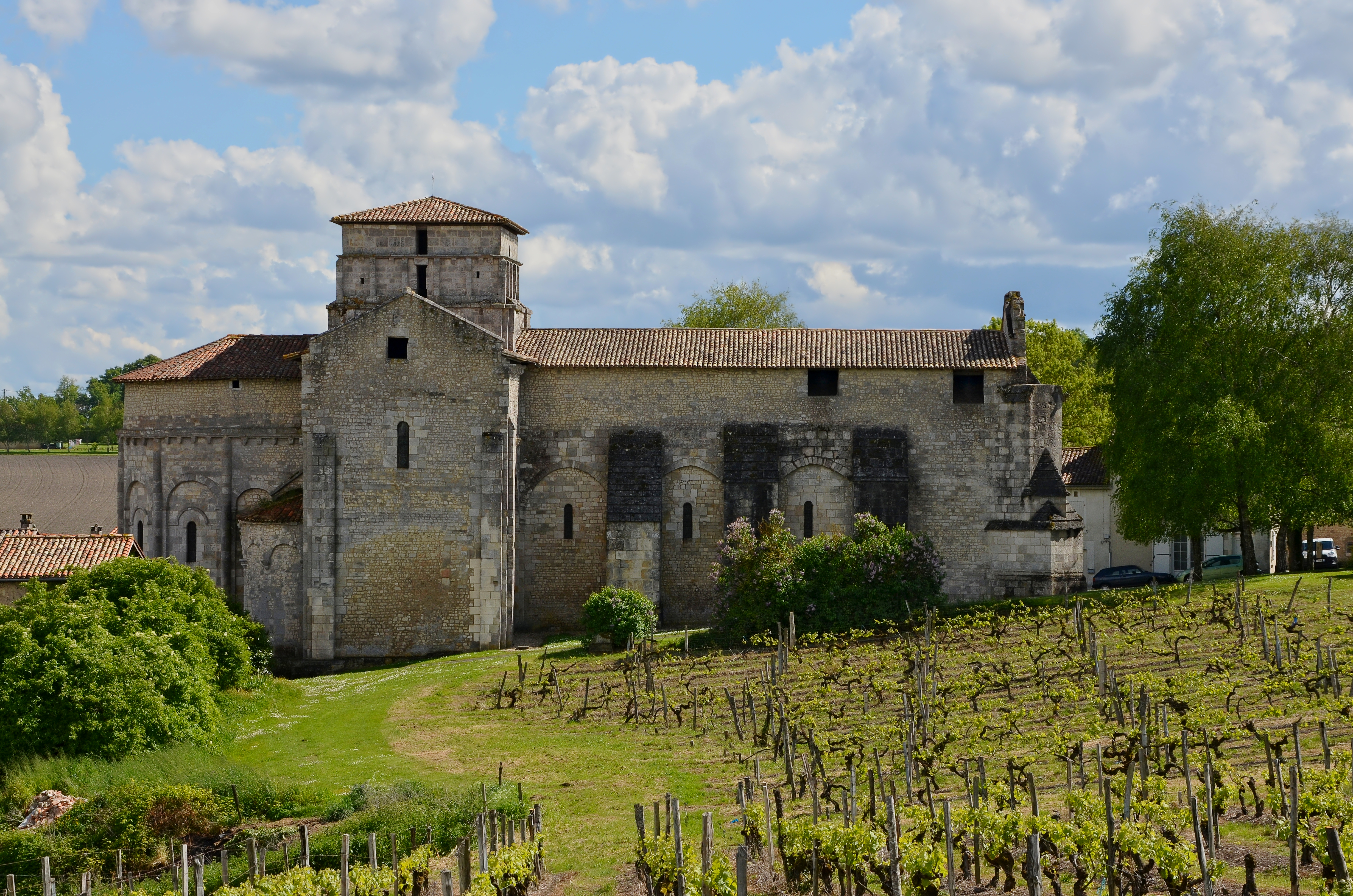 North view (from road D 128) of the church ; Berneuil, Charente, France. It is indexed in the Base Mérimée, a database of architectural heritage maintained by the French Ministry of Culture, under the references PA00104247 and IA00041399 .